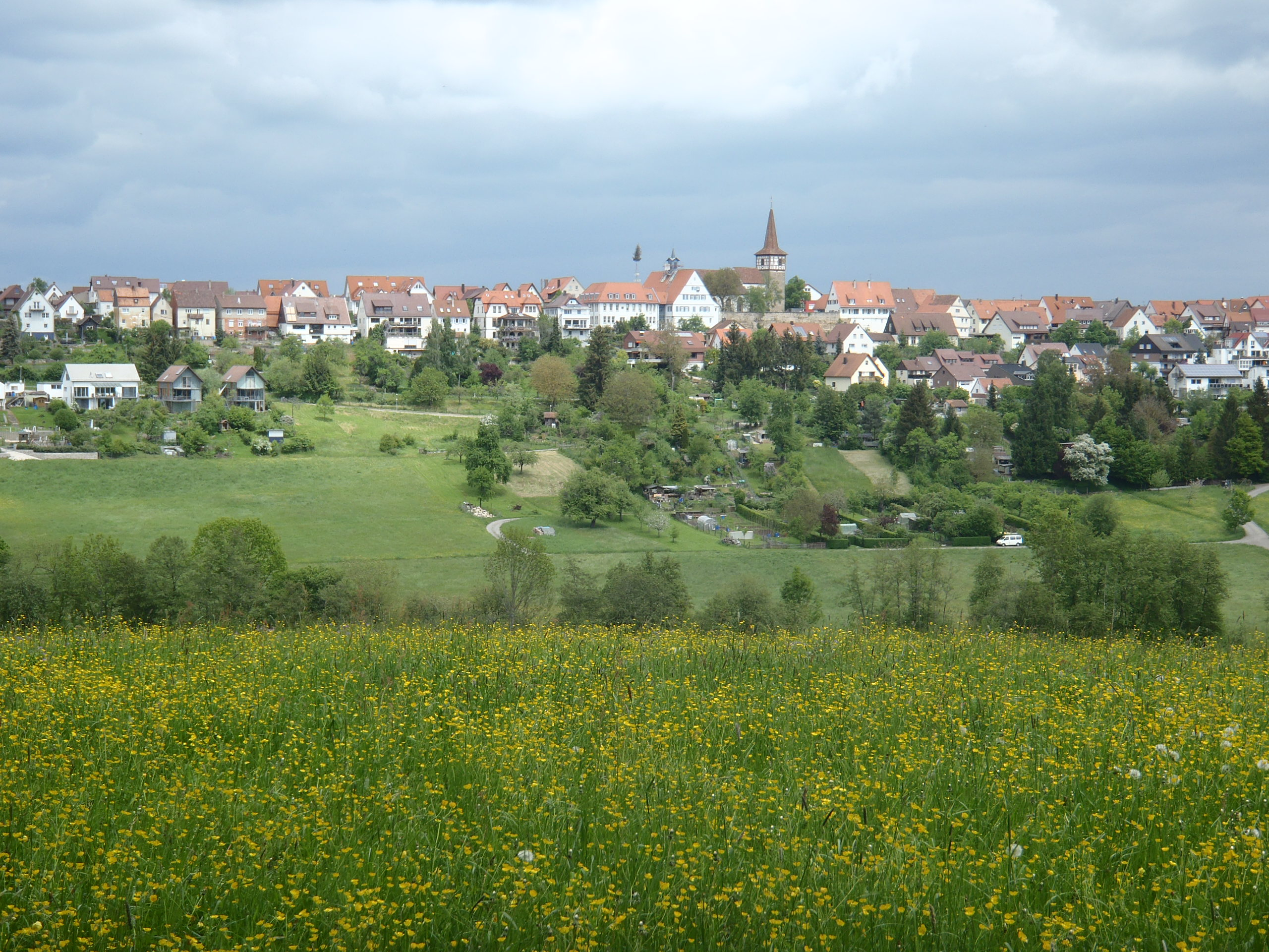 View towards Weil im Schönbuch near Tübingen